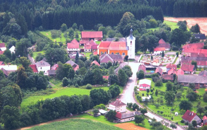 Vojslavice